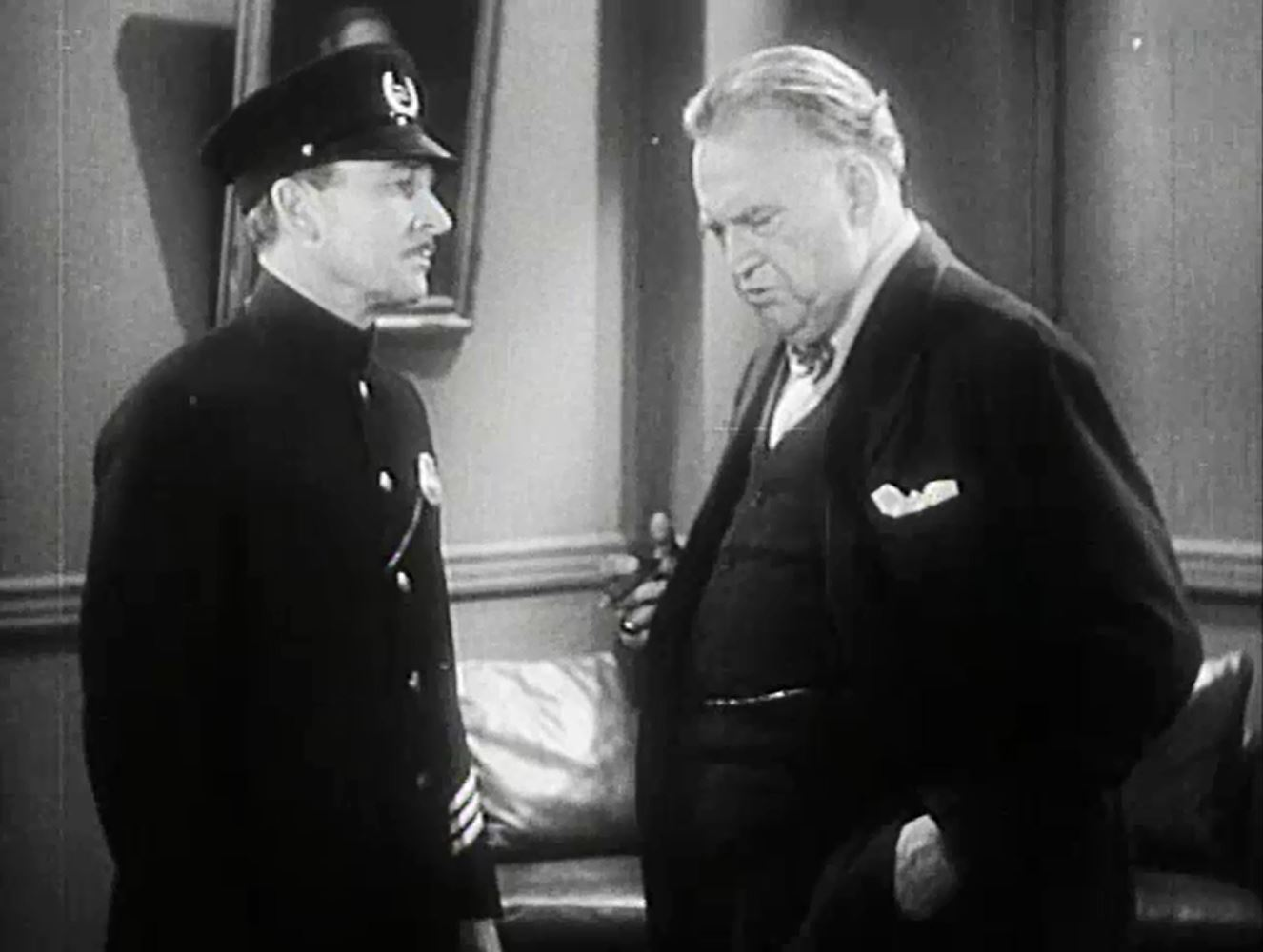 Low resolution screenshot of Hooper Atchley as the captain of the guard and James A. Marcus as reform school Superintendent Charles Thompson from the American public domain film Hell's House (1932).